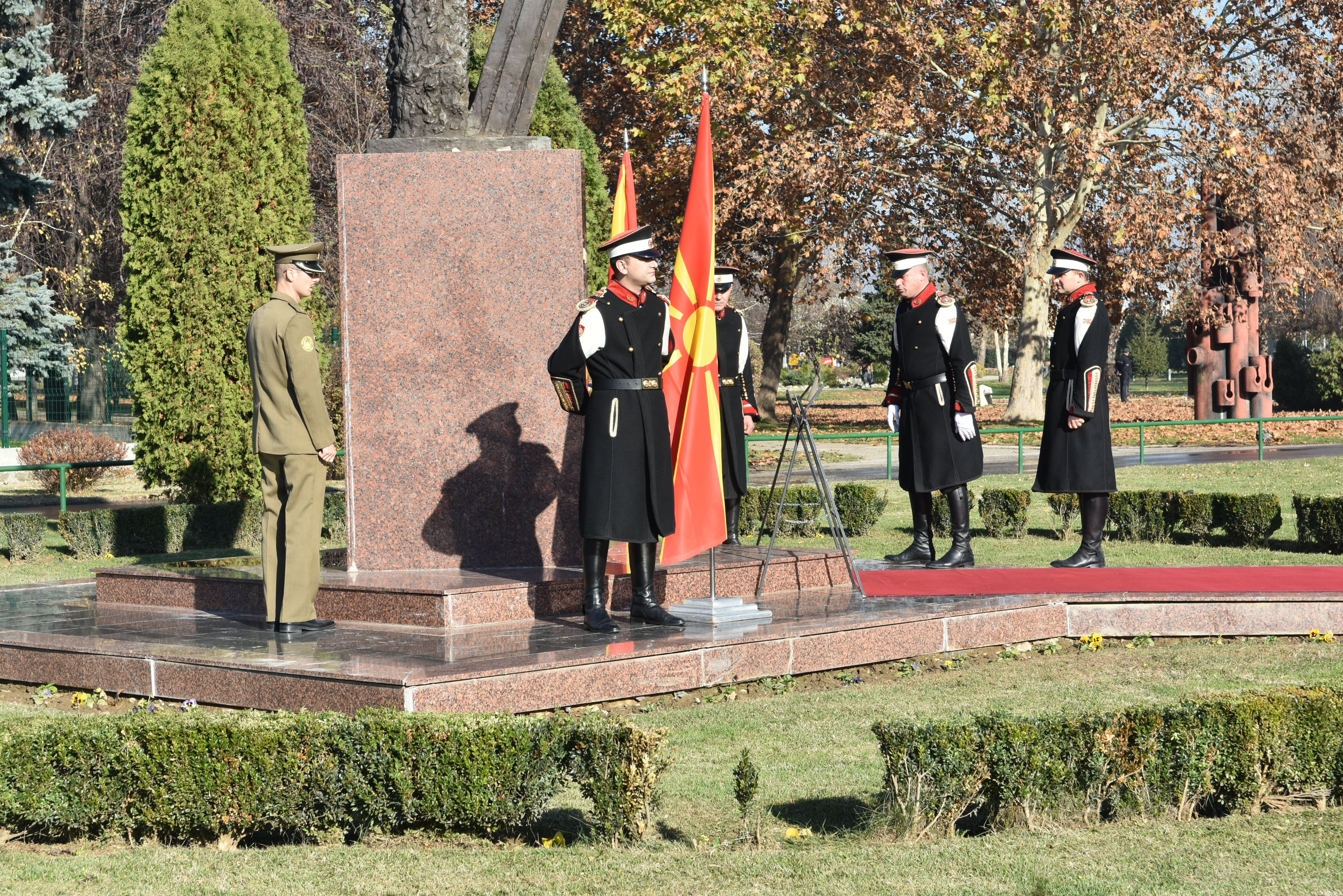 Monument of Boris Trajkovski in Strumica, Republic of Macedonia.